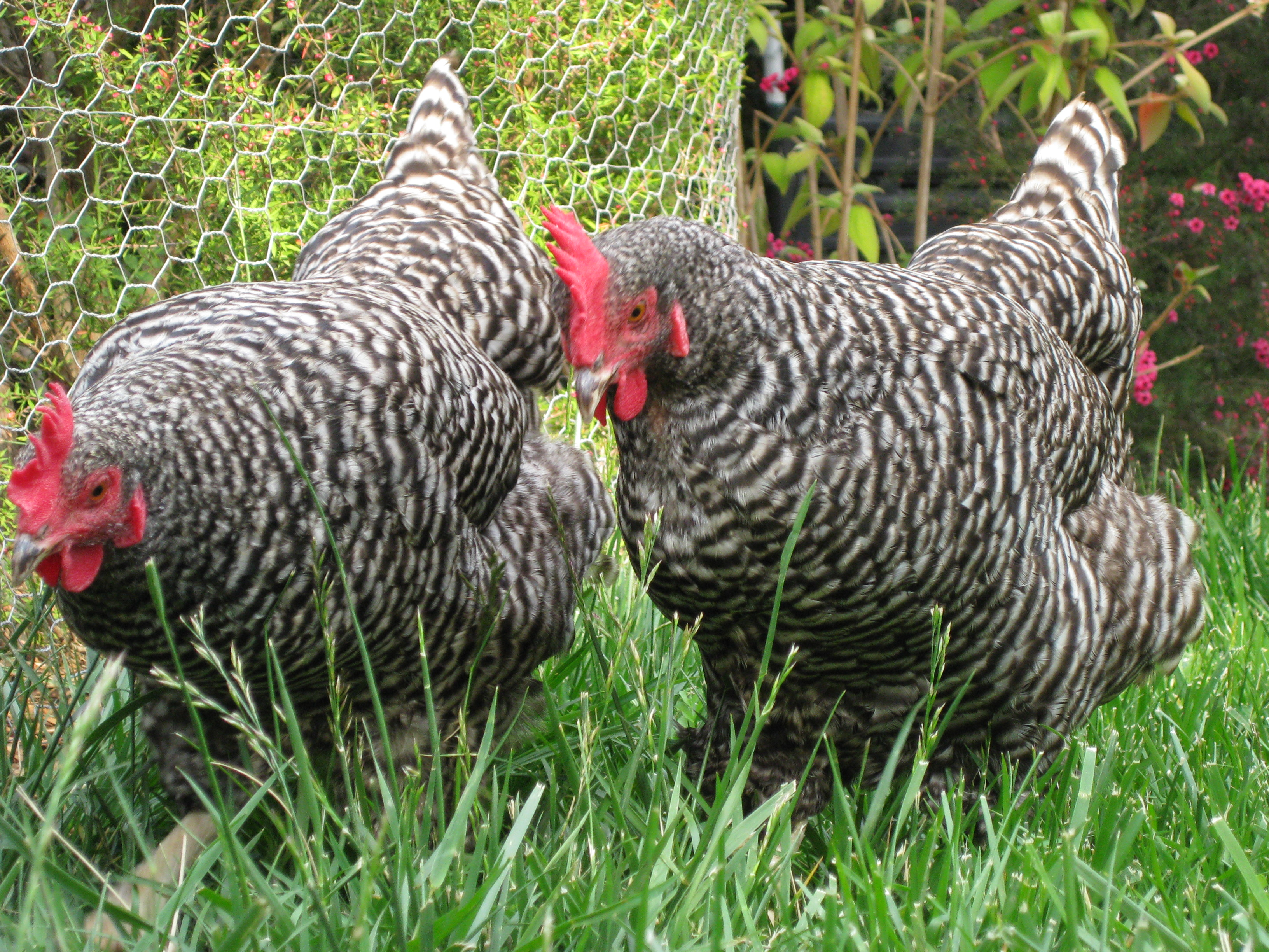 A pair of urban Barred Plymouth Rock hens